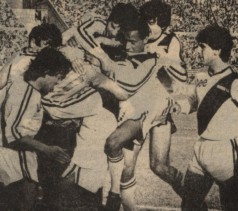 Danubio FC